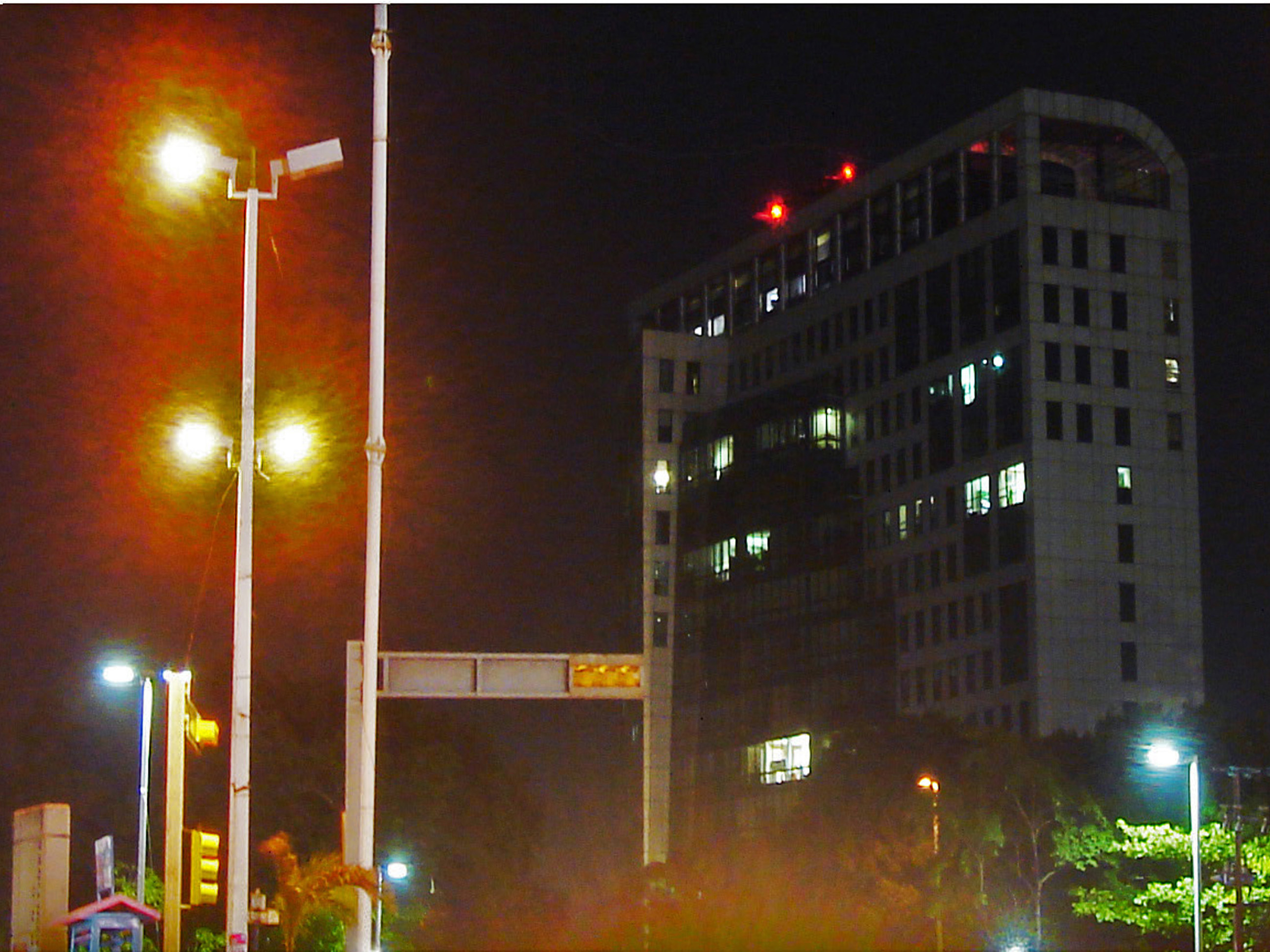 Side view of Torre Empresarial at night.